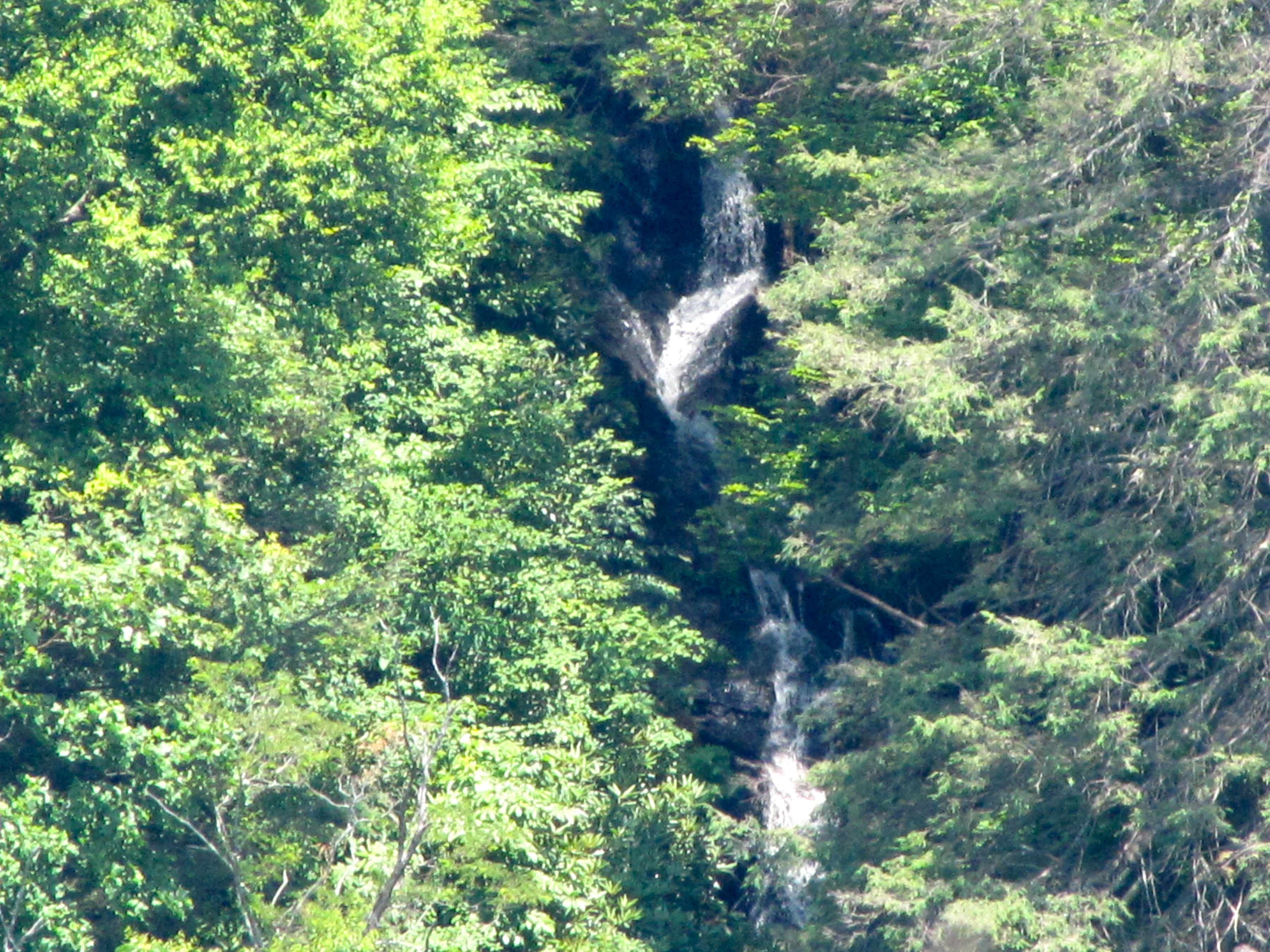 Betsey's Rock Falls from overlook on the Blue Ridge Parkway. Very difficult to see from the road without binoculars or a strong zoom.